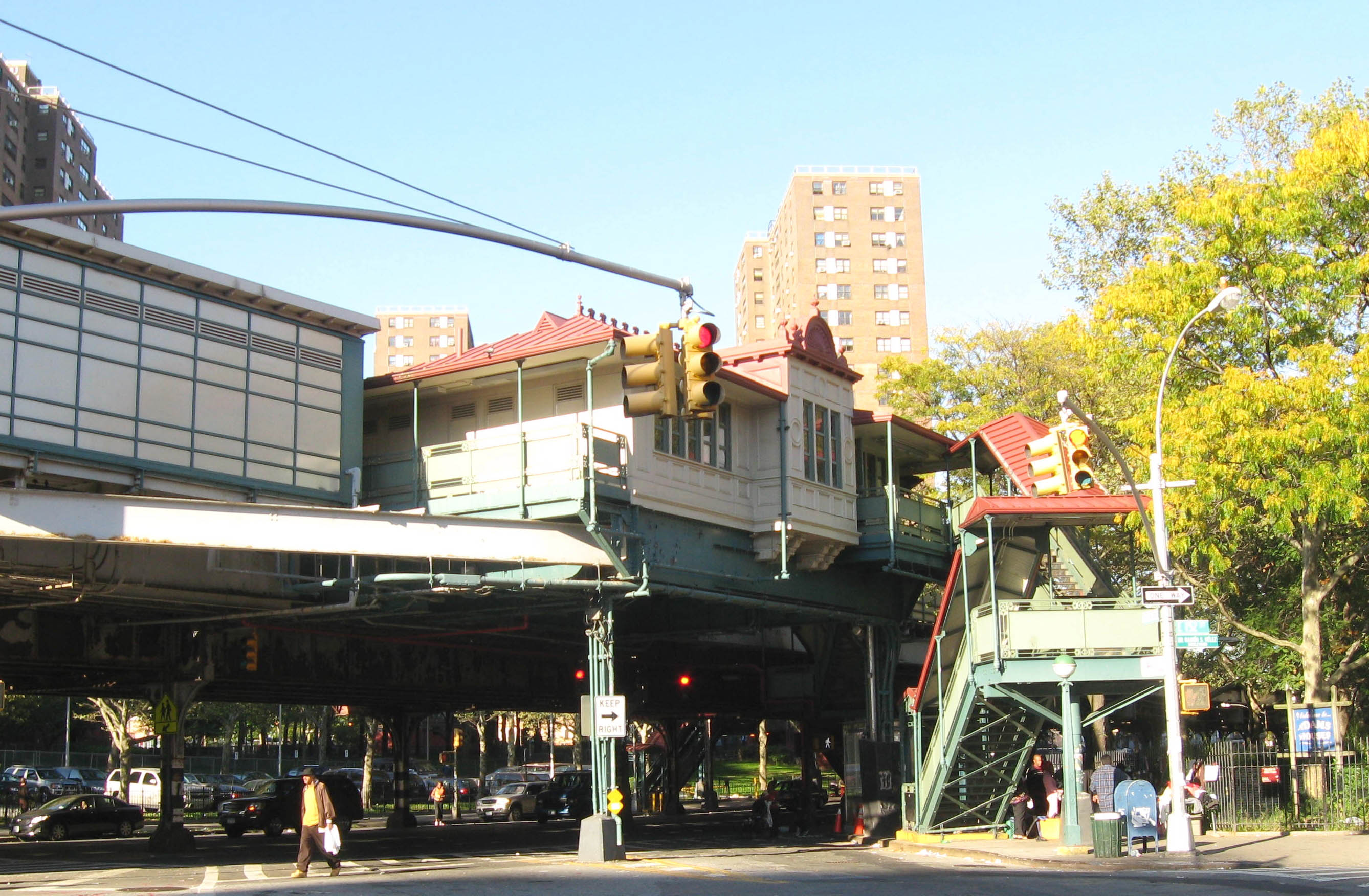 Looking north along Jackson Avenue and across 152 Street at southern stair and northbound side of Jackson Avenue (IRT White Plains Road Line) on a sunny early afternoon. ZIP 10455.